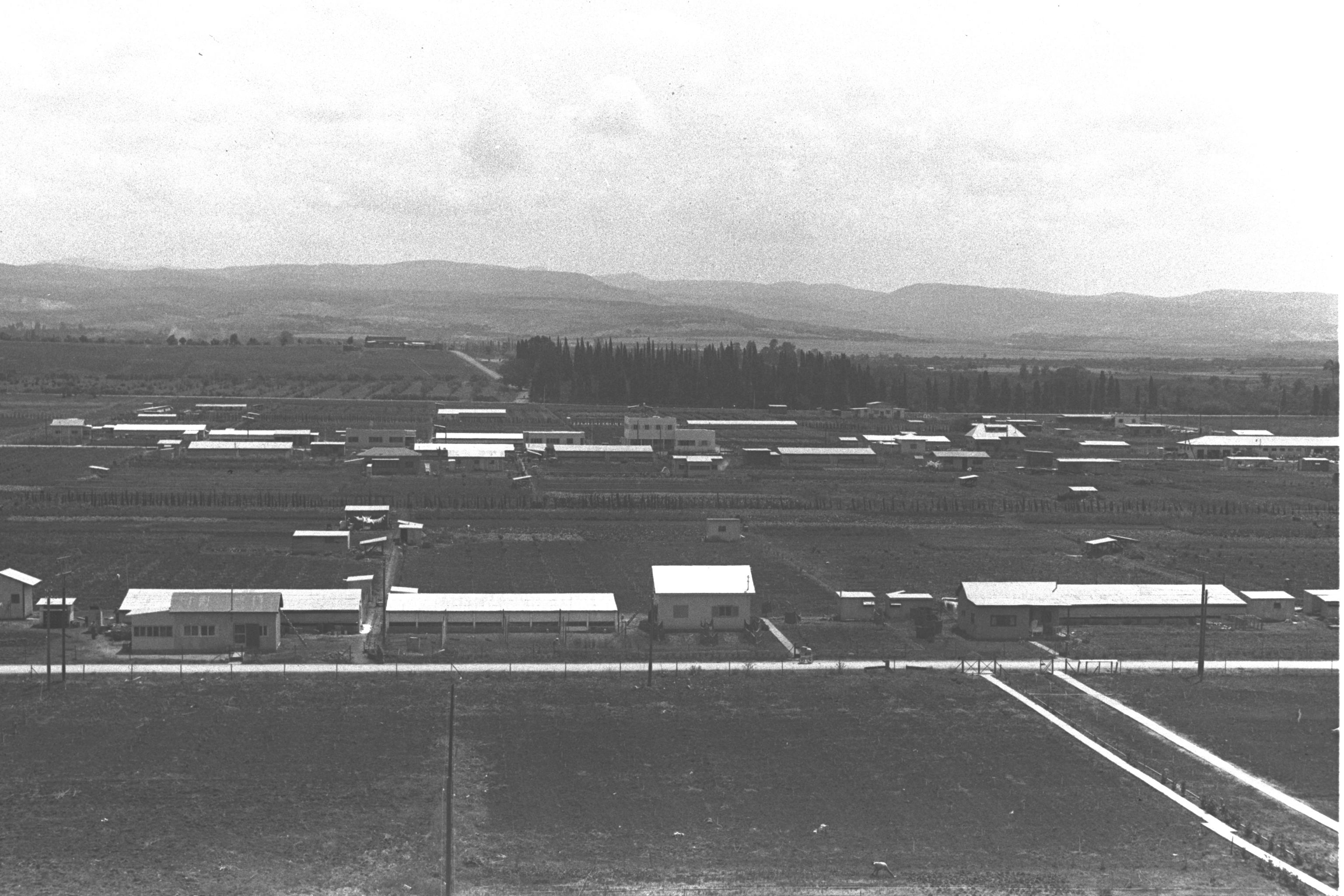 VIEW OF NAHARIA NEAR THE LEBANESE BORDER. הישוב נהריה, ליד גבול לבנון.